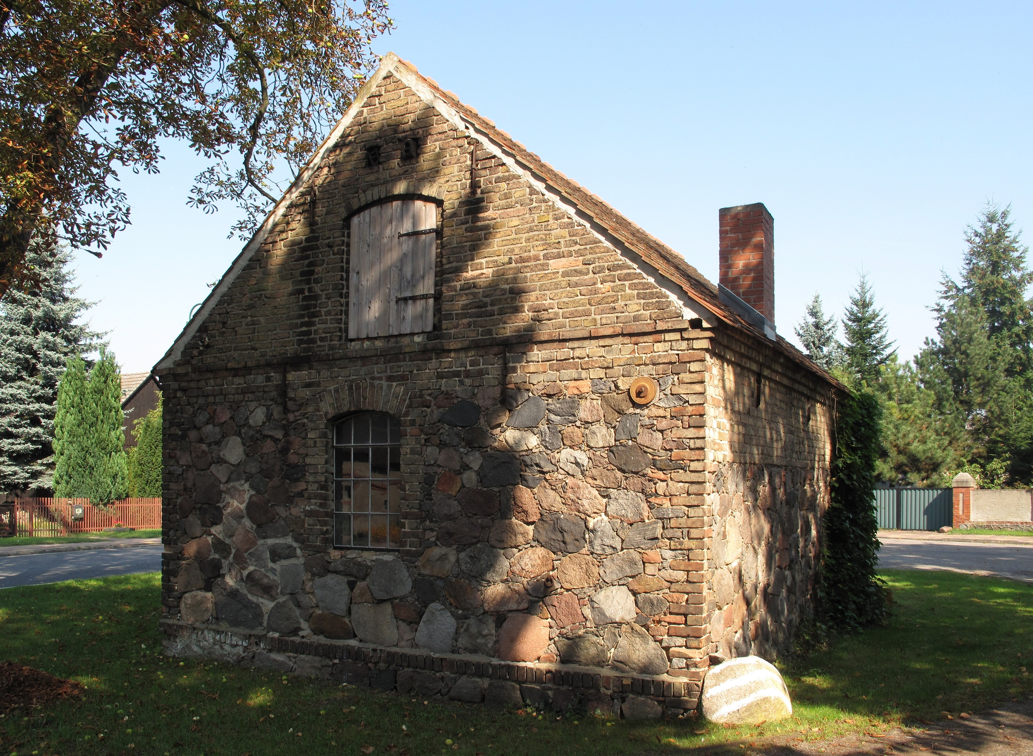 Listed former forge in Mittweide, a part of the municipality Tauche in the District Oder-Spree, Brandenburg, Germany. The forge is dated to 1801/1900.